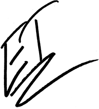 Evan Taubenfeld's signature.